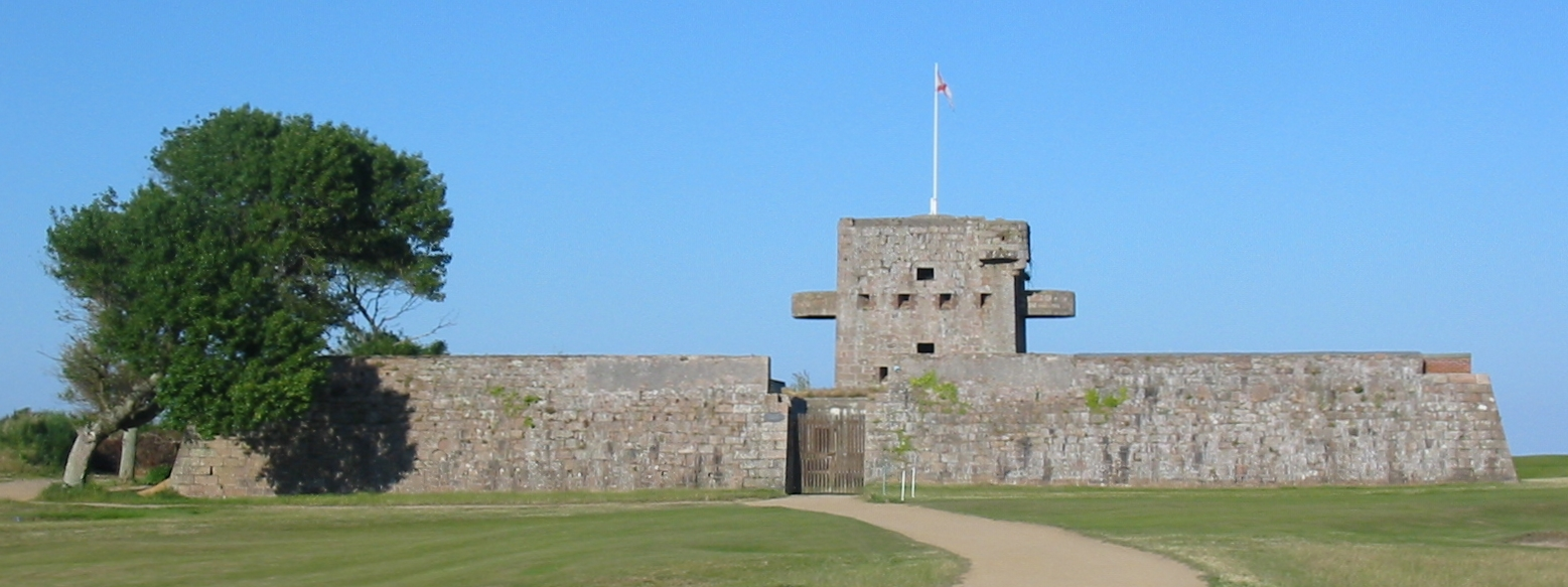 Jersey, 22 June 2009